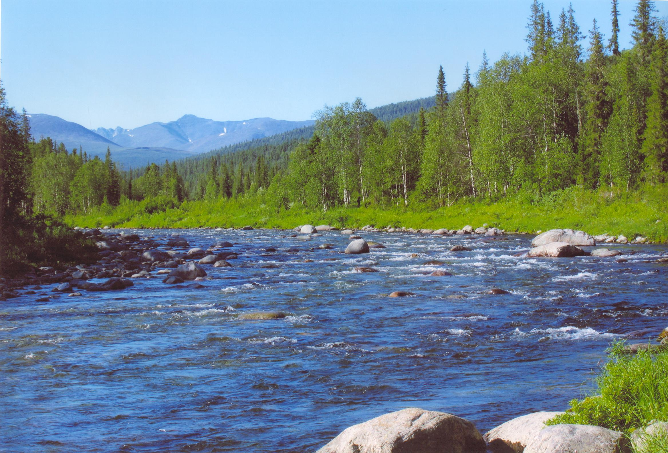 River near the village Saranpaul, Khanty-Mansia, Russia